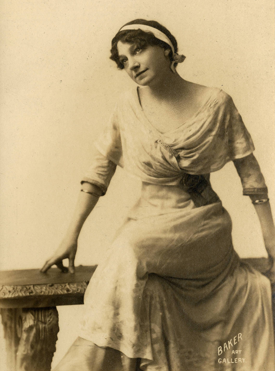 american stage & film actress Louise Carter - publicity still (cropped)